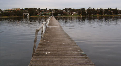 Long Jetty on Tuggerah Lake, New South Wales, Australia.